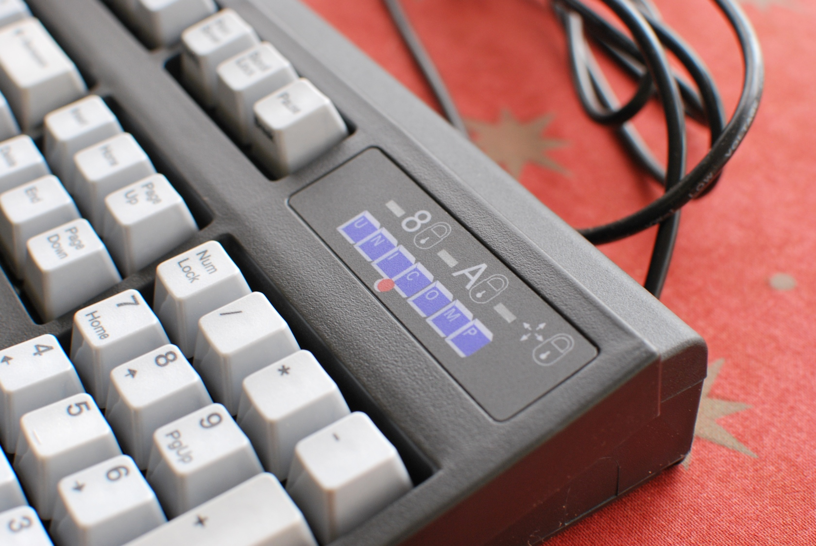 My new Unicomp keyboard!